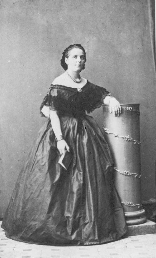 Mathilde Marchesi (born: Mathilde Graumann; March 24, 1821 – November 17, 1913) was a mezzo-soprano, teacher of singing, and exponent of the bel canto technique. (This summary was created using Commons SumItUp)